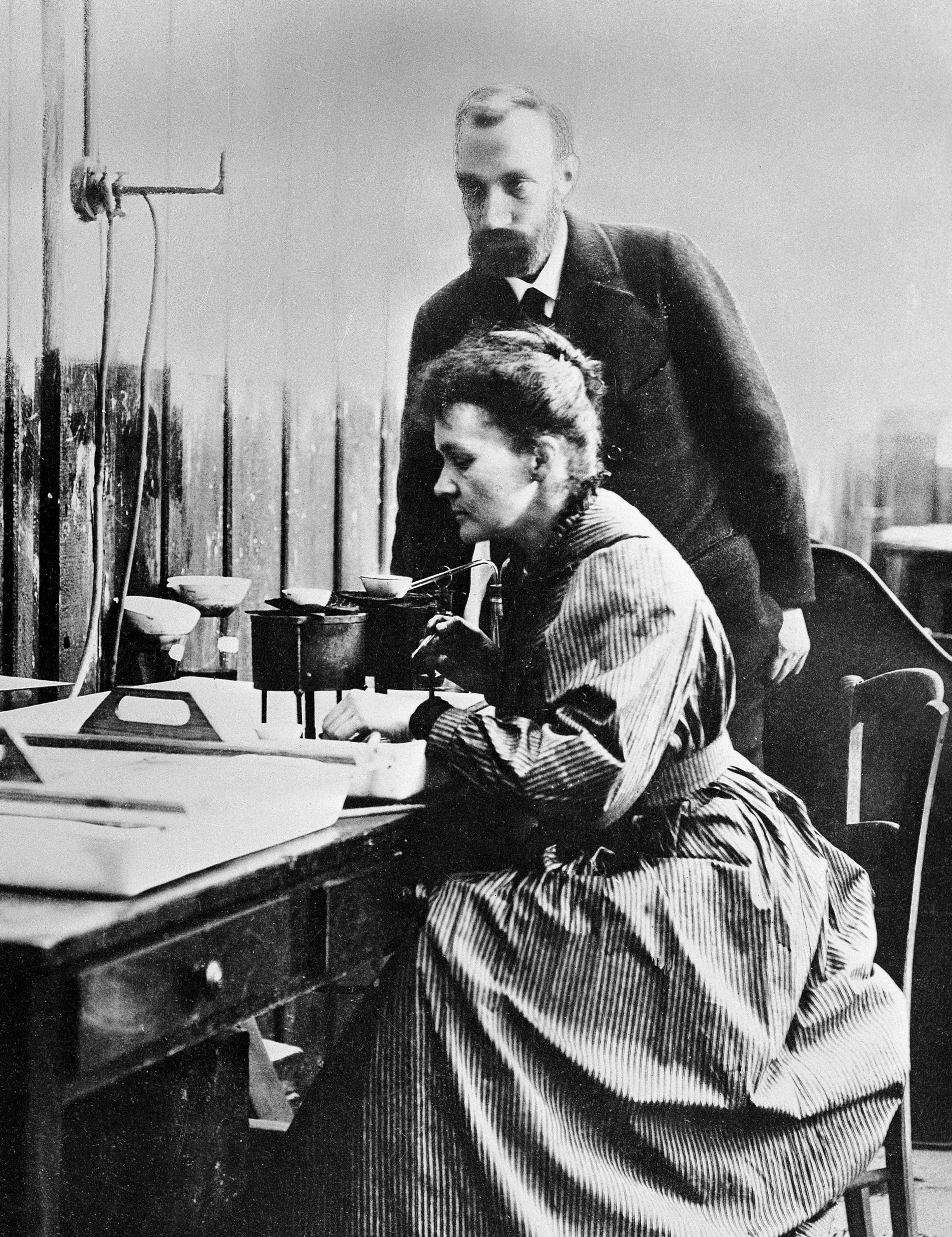 Pierre and Marie Curie at work in a laboratory.